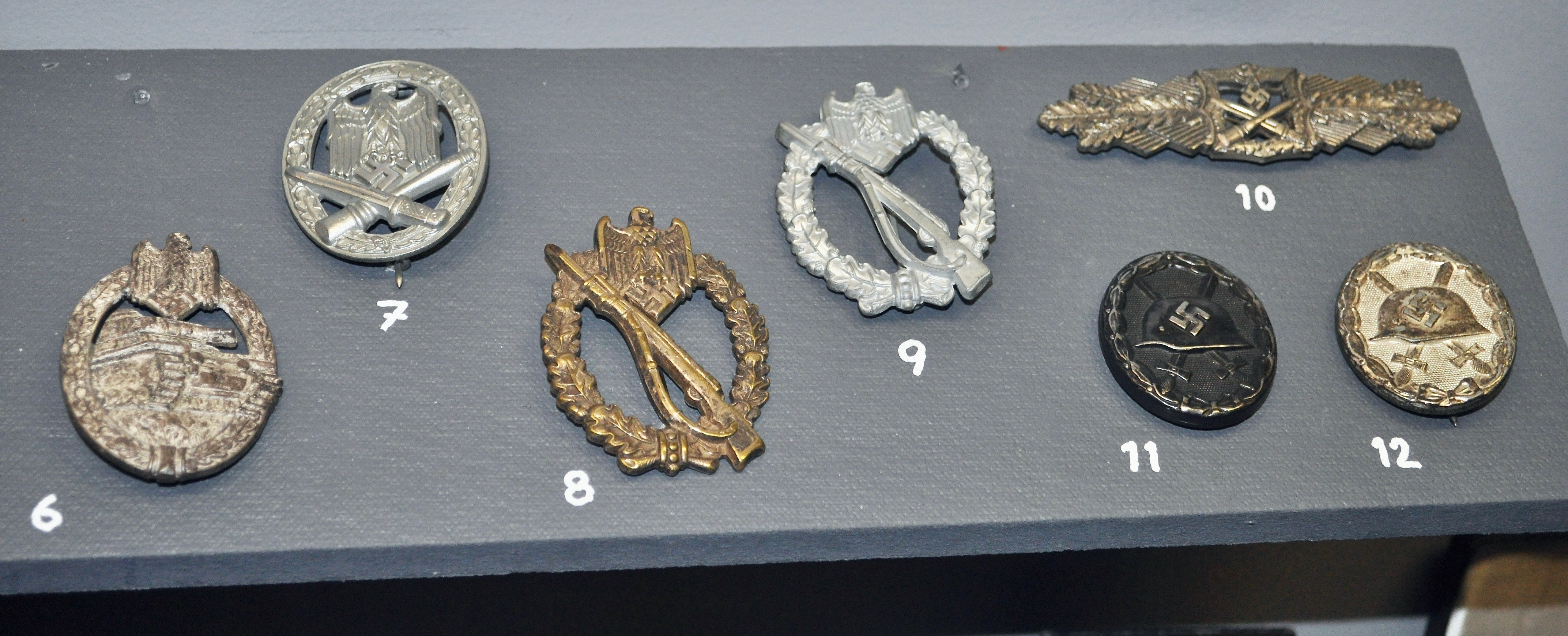 Military decorations of the Third Reich. Fort Lewis Military Museum, Fort Lewis, Washington, USA: 6. Tank assault badge 7. General assault badge 8. Armored infantry assault badge 9. Infantry assault badge 10. Close combat bar in silver 11. Wound badge in black 12. Wound badge in silver Identifications based on File:FLMM - Nazi badges & insignia list.jpg.